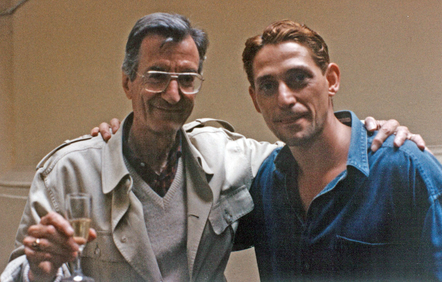 Steve Scott with Carlo Lizzani on the Set of Celluloide, Rome-Italy 1996